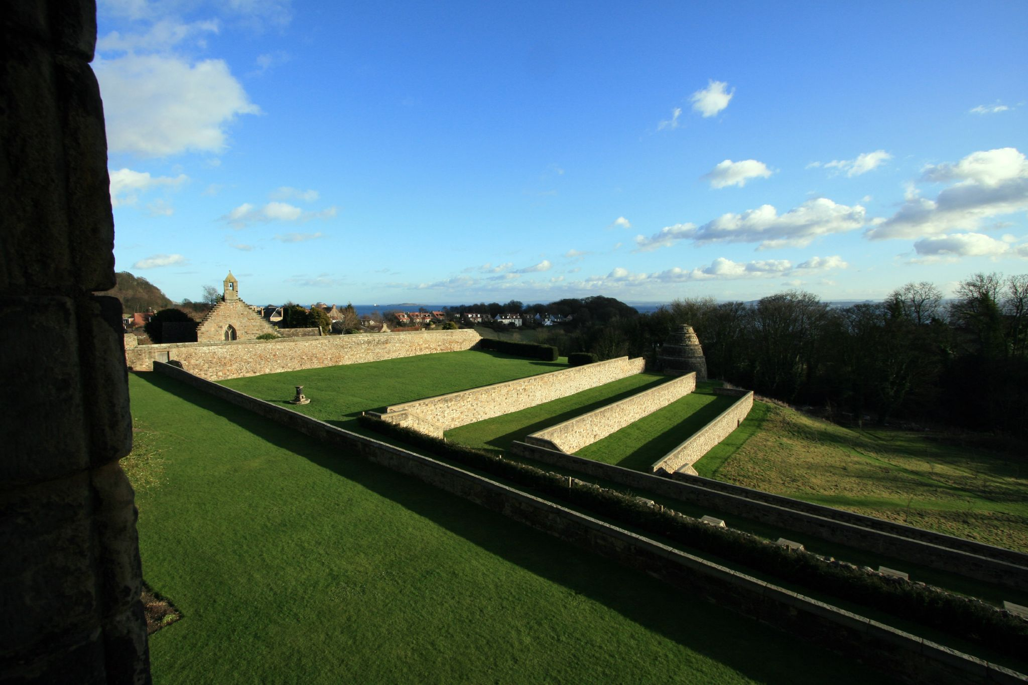 The terraced gardens at Aberdour Castle. To the south is St Fillans church. The late 16 century beehive shaped dovecote is shown.